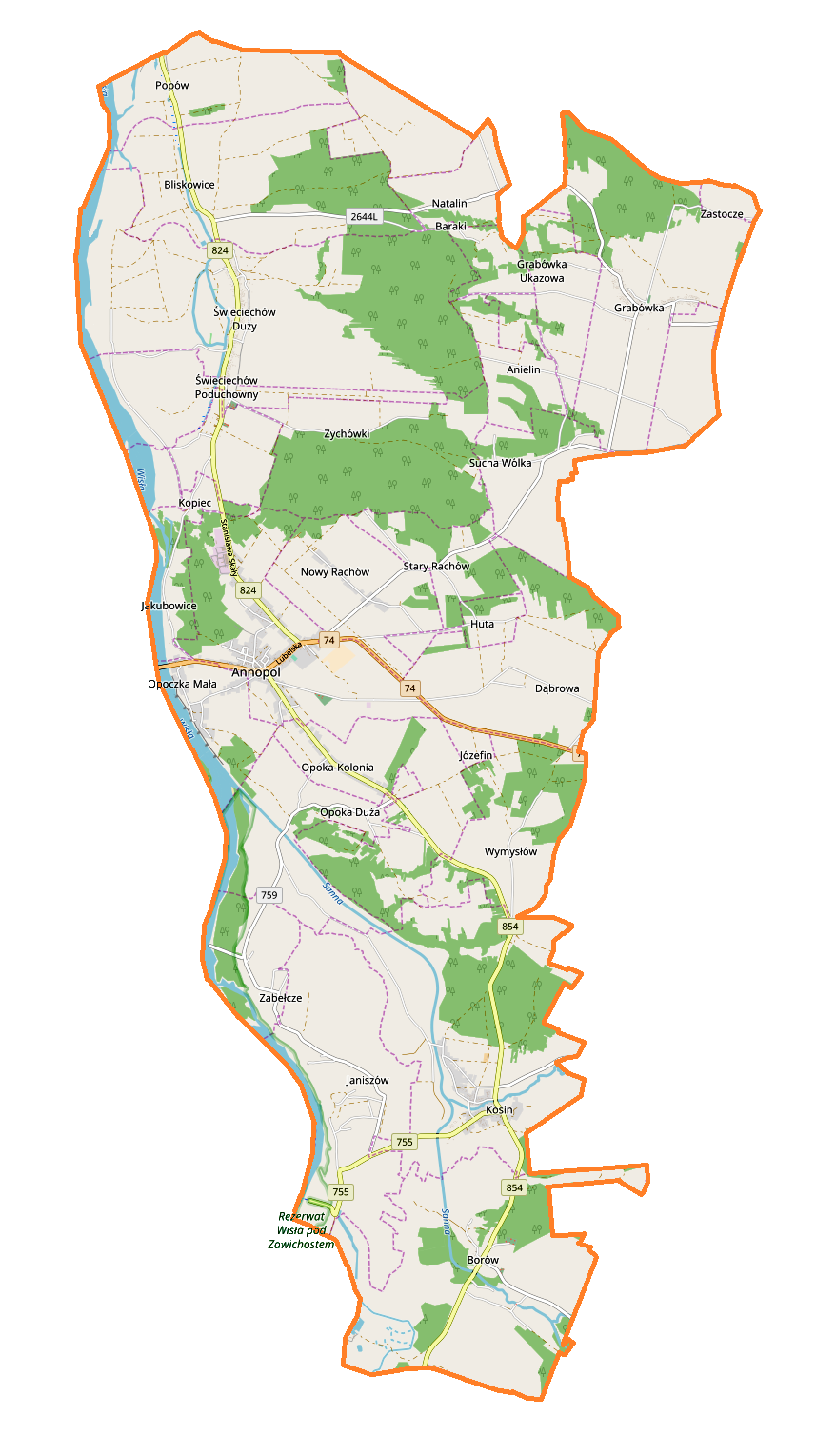 Location map